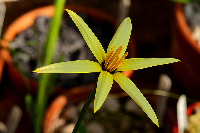 An attractive South African bulbous plant.